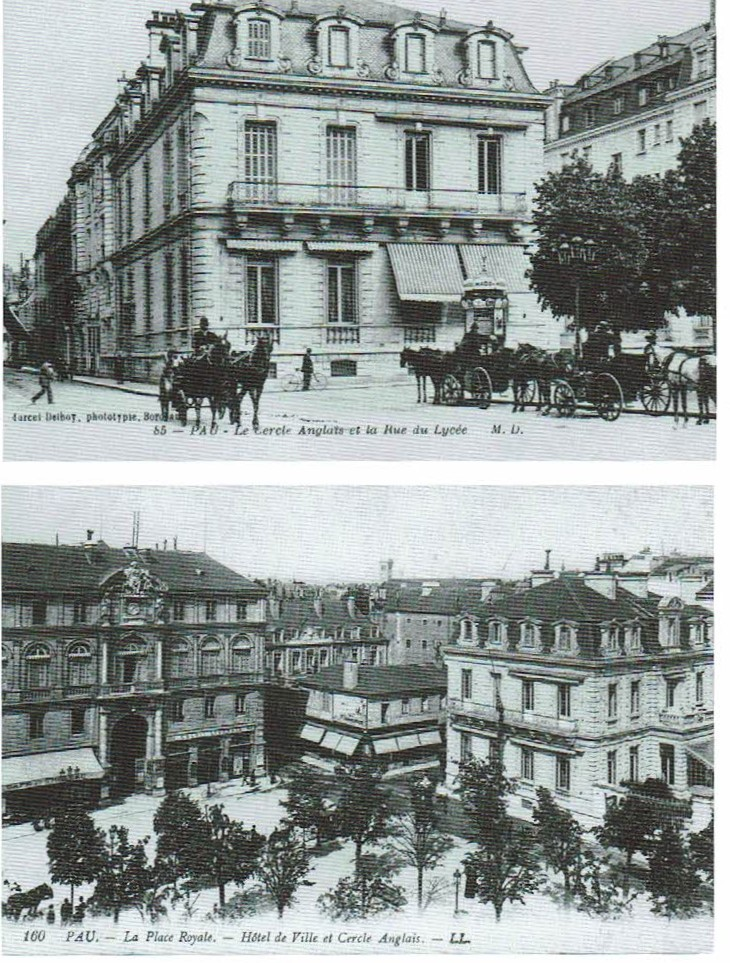 Turn of the 20th century post cards of the Cercle Anglais at la place Royale Pau France